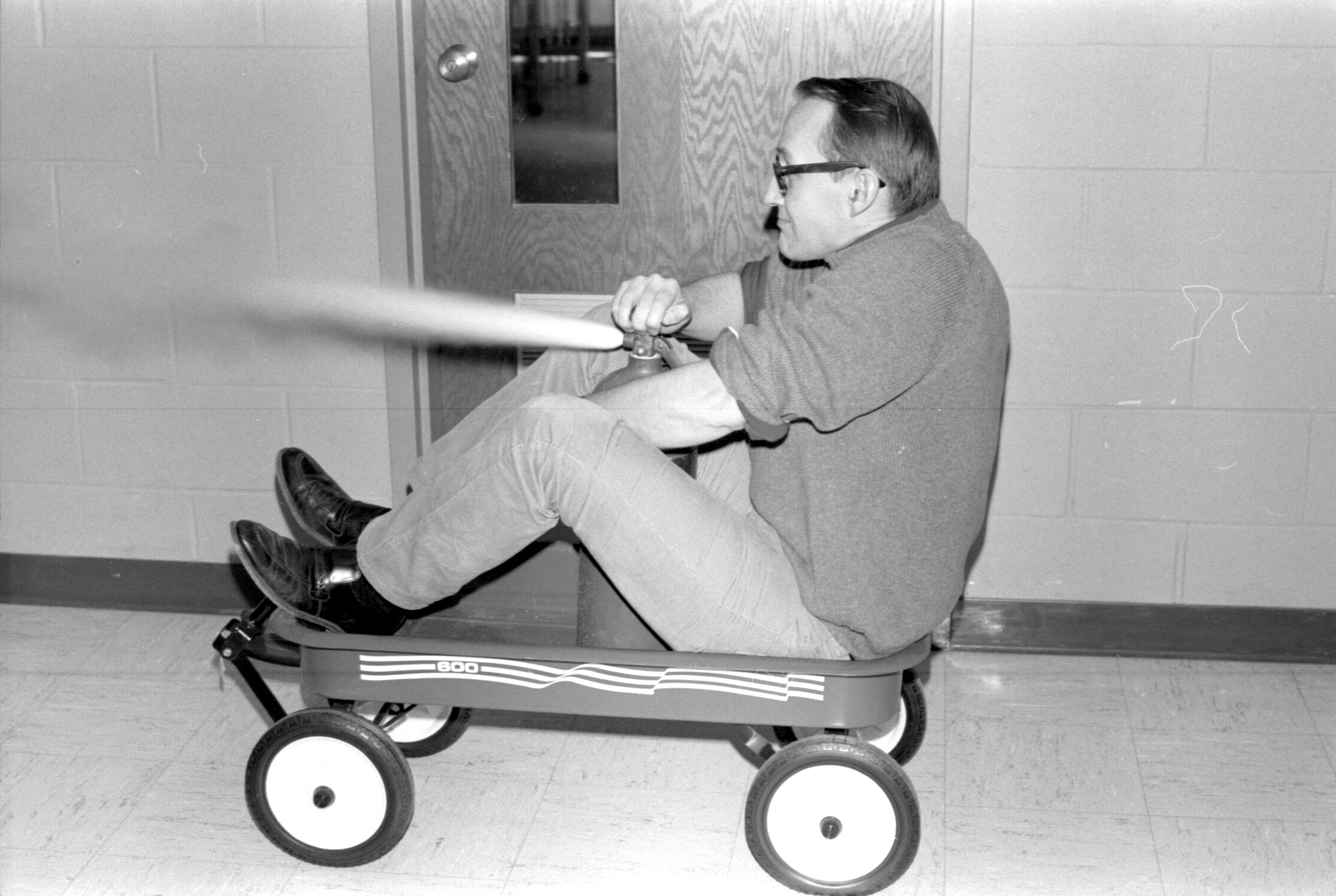 Professor Charles H. Holbrow of Colgate University uses a fire extinguisher and a wagon to demonstrate rocket propulsion.